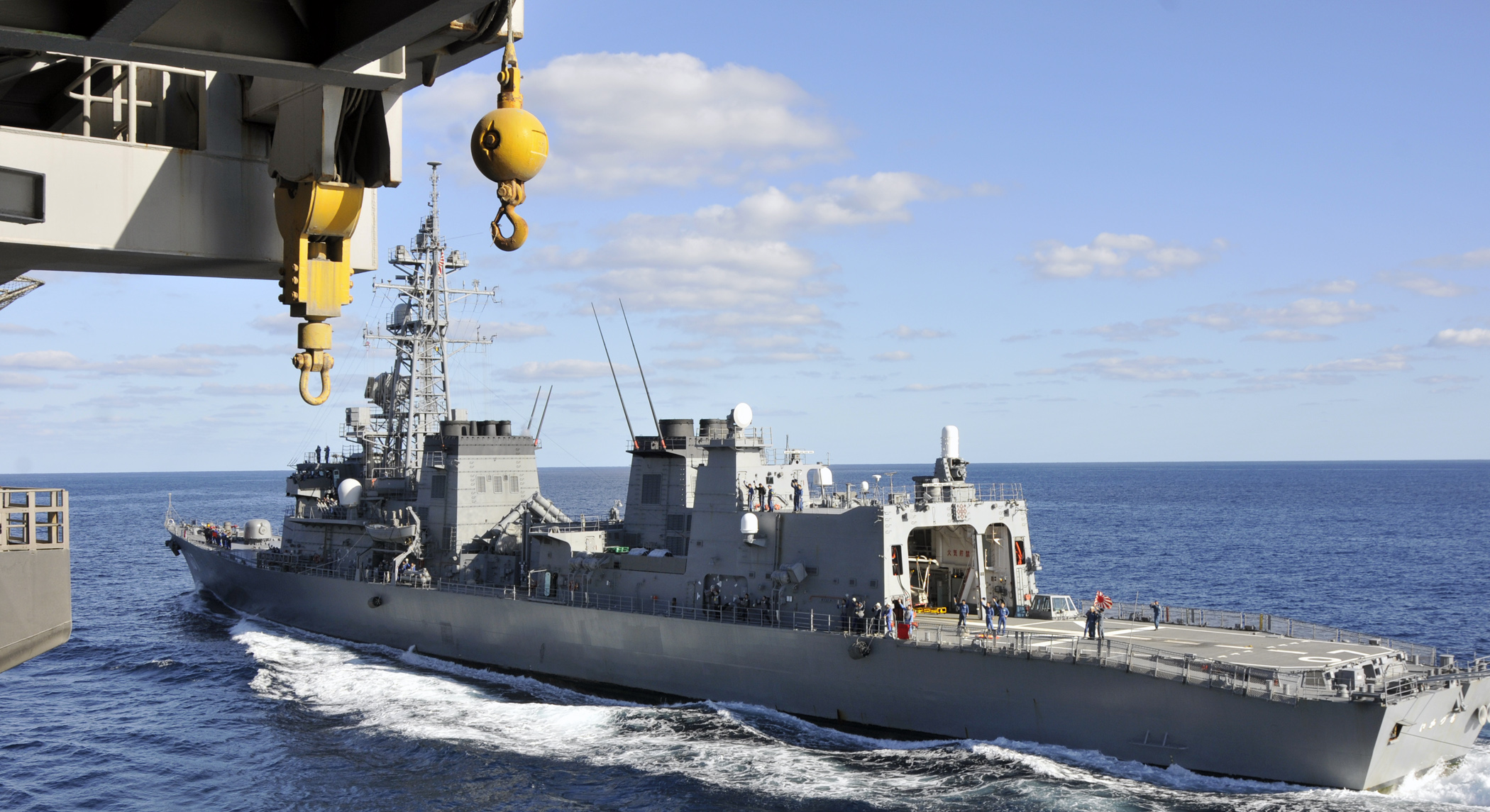 PACIFIC OCEAN (Dec. 5, 2010) The Japan Maritime Self-Defense Force destroyer Ikazuchi (DD 107) maneuvers alongside the aircraft carrier USS George Washington (CVN 73). The George Washington Carrier Strike Group is participating in Keen Sword 2011 with the Japan Maritime Self-Defense Force through Dec. 10. (U.S. Navy photo by Mass Communication Specialist 3rd Class David A. Cox/Released)